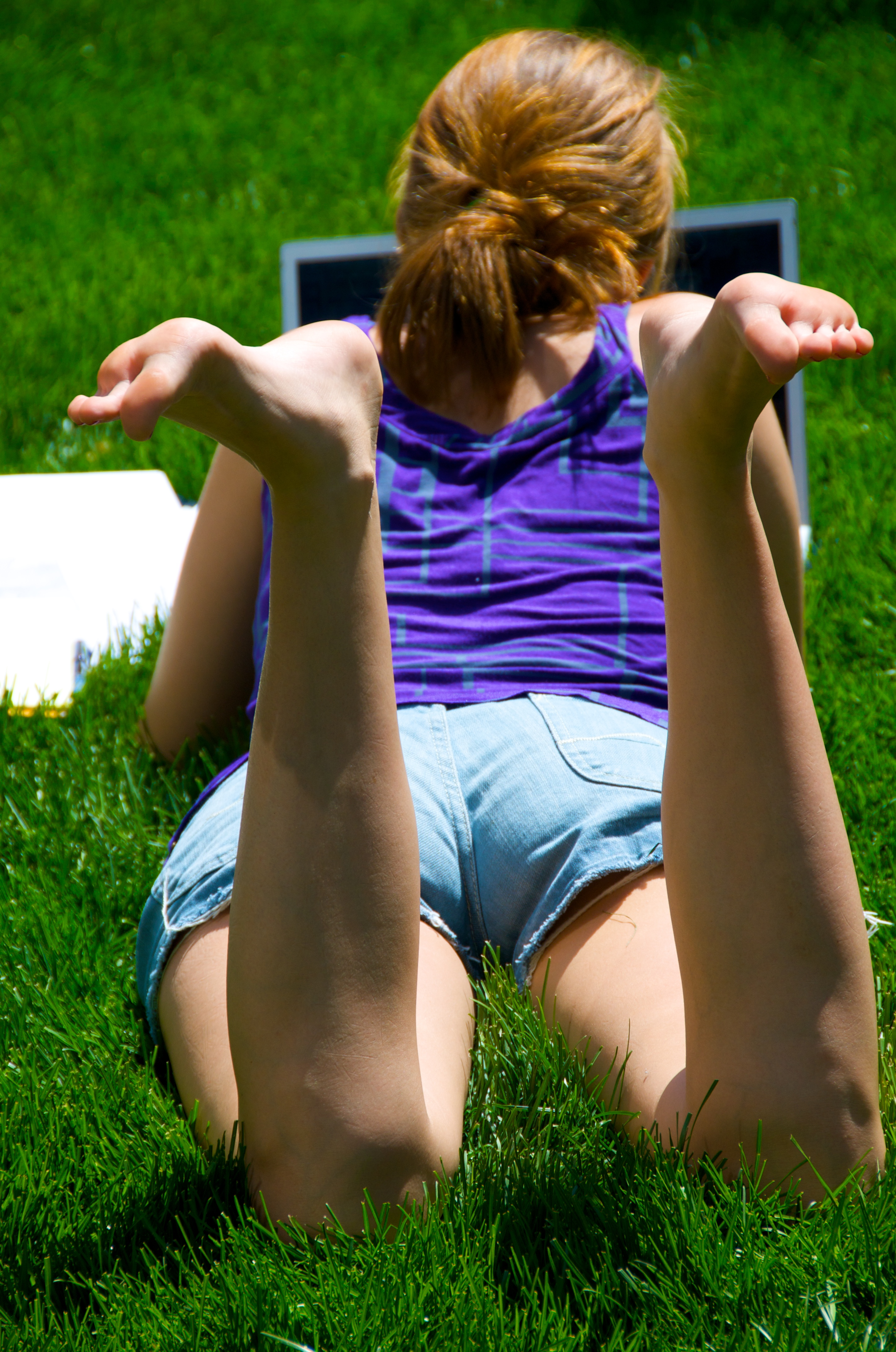 Young woman typing on a computer in the park on the grass.